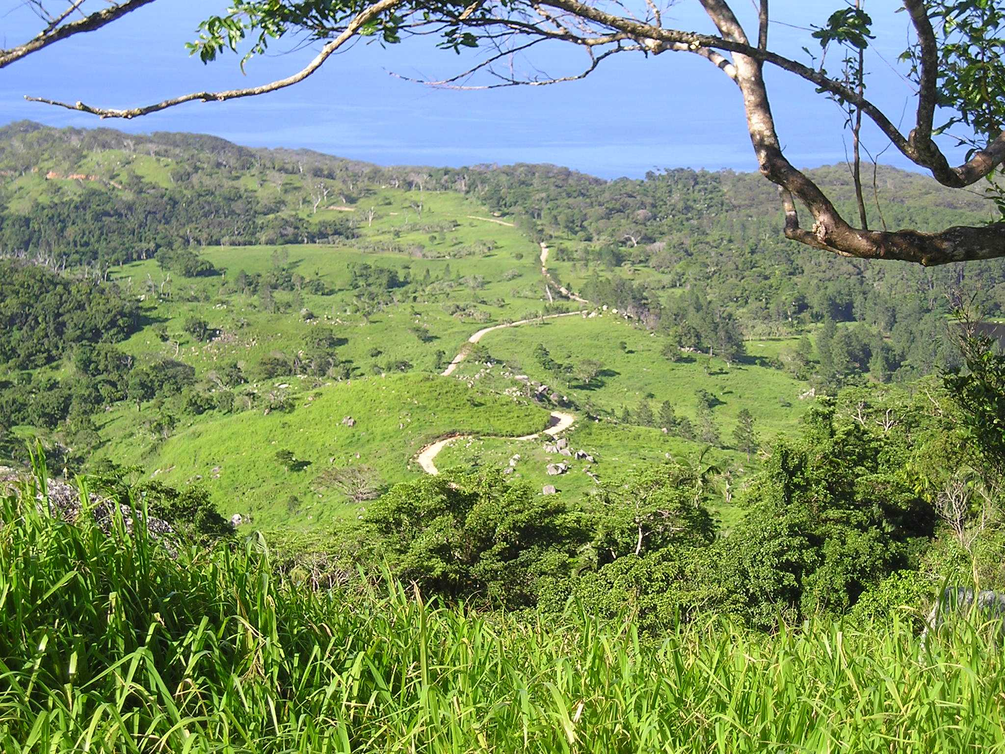 A view of the road to Palm Island of Queensland, Australia. The original source of this image is Mr. Luke Duyvestyn who took these photos himself on Palm Island, they were uploaded to YouTube (here: by Mr Duyvestyn's son, I User:WikiTownsvillian e-mailed Mr Duyvestyn (original contact made through e-mailing his son) who agreed to granted permission under the GNU Free Documentation License, a copy of my e-mail and the response I received back have been sent to permissions-en AT wikimedia DOT org. statement I received: I own the copyright to the images mentioned in your email letter. I grant permission to copy, distribute and/or modify this document under the terms of the GNU Free Documentation License, Version 1.2 or any later version published by the Free Software Foundation; with no Invariant Sections, no Front-Cover Texts, and no Back-Cover Texts. Please notify me when you post the photo's as I would like to see the page with them in use. Thanks